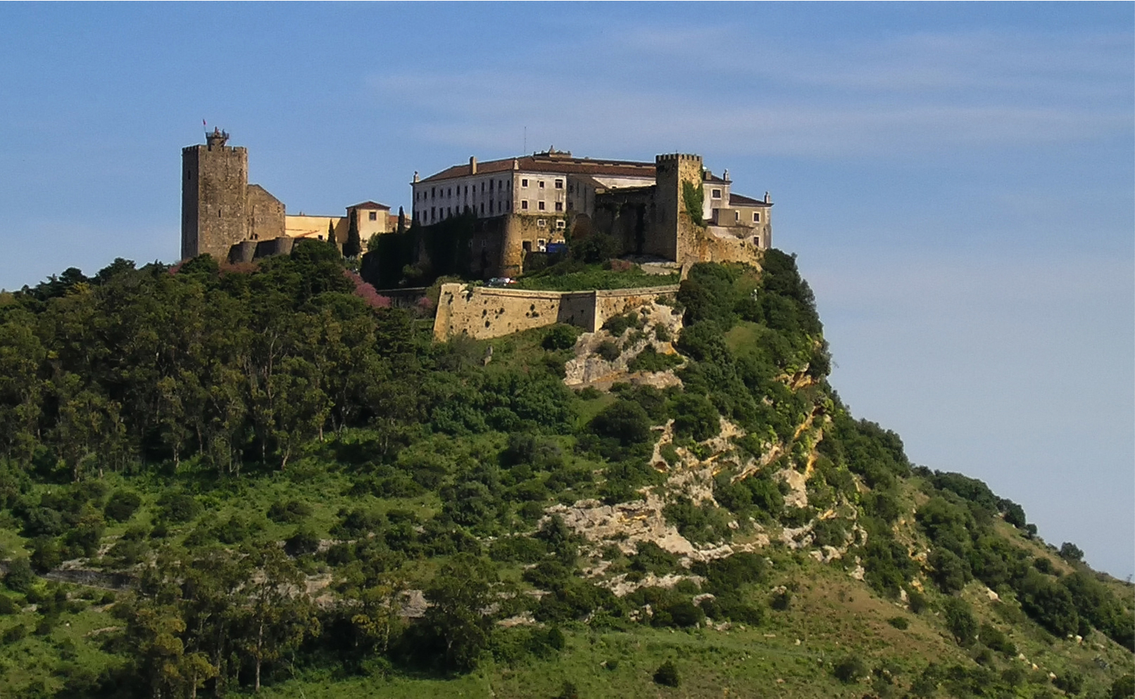 Palmela Castle, Setúbal, Portugal